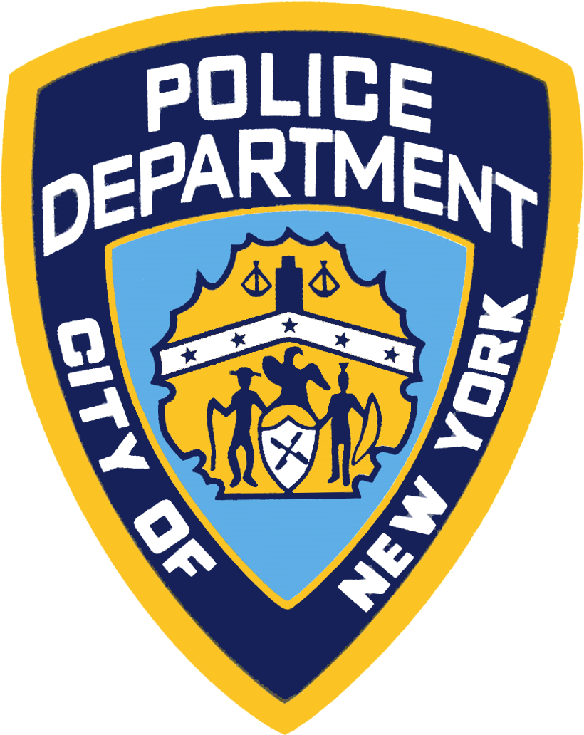 The patch of the New York City Police Department (NYCPD), created in 1971.